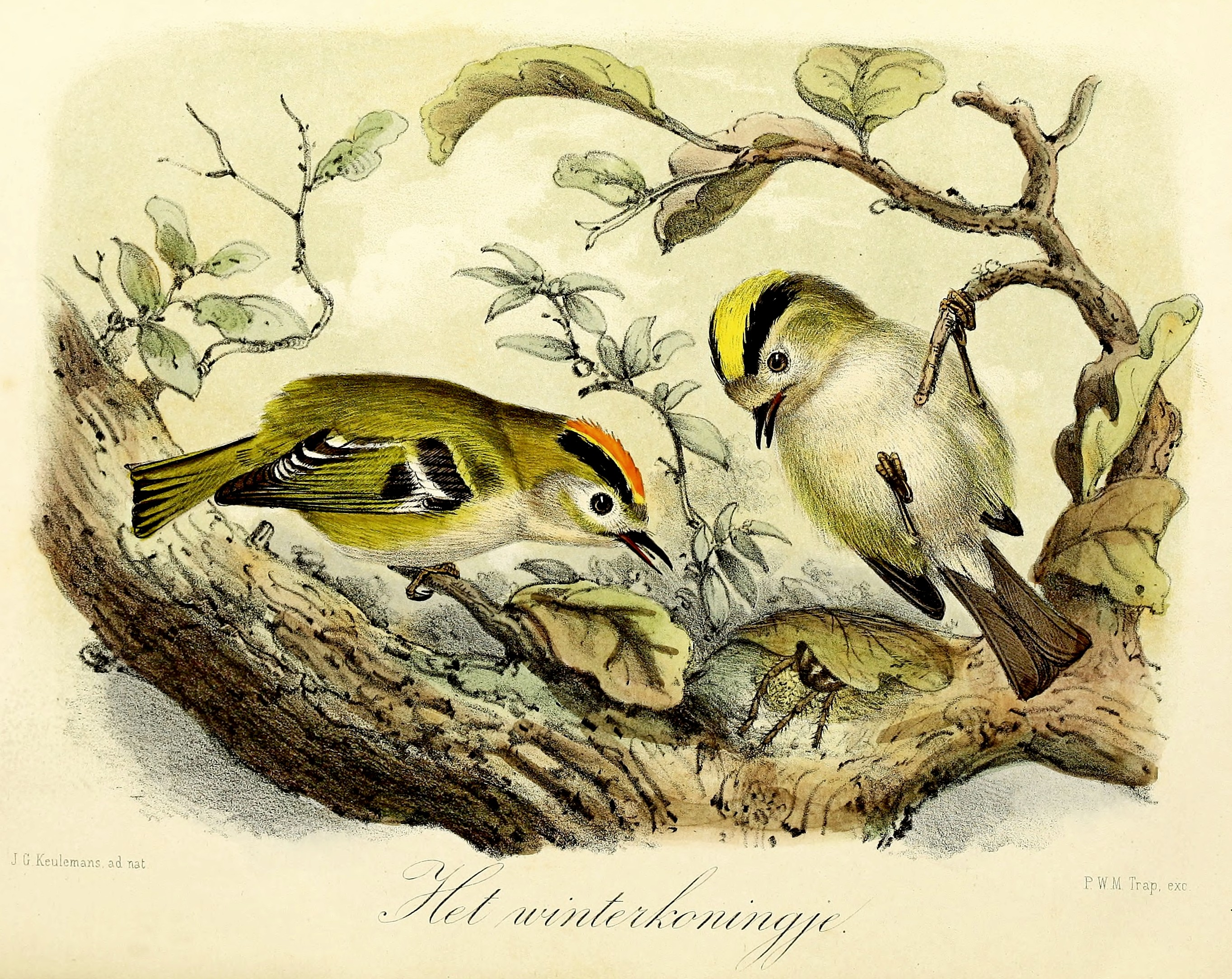 « Regulus cristatus » = Regulus regulus (Goldcrest)